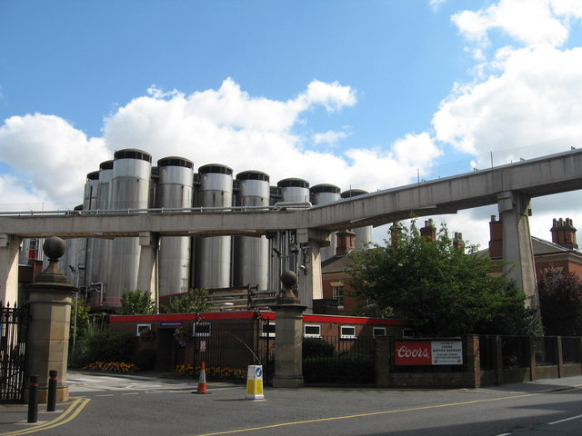 Entrance to Coors Burton Brewery Coors, formerly Bass Brewery. Burton upon Trent became popular with brewers as water suitable the brewing process could be drawn from boreholes. Thirty different breweries operated in the mid 19th centuries and Bass & Co Brewery, established by William Bass in 1777 was one of the first. The Bass Red Triangle is one of the world's oldest logos and was the first trademark to be registered in Britain, on 1 January 1876.